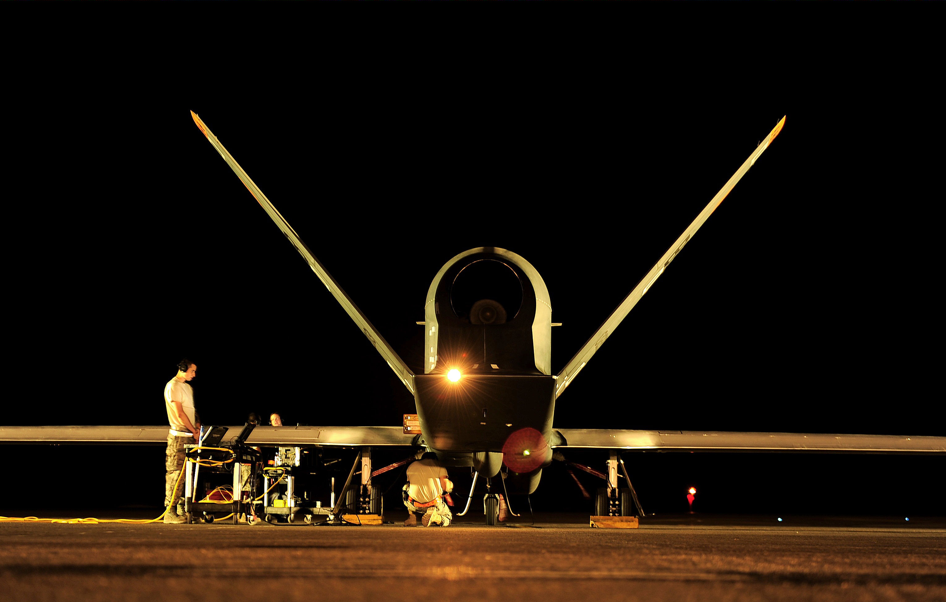 An RQ-4 Global Hawk undergoes pre-flight checks from maintenance technicians before a mission while deployed at an air base in Southwest Asia. Equipped on a block 40 Global Hawk, the Air Force completed the first Maritime Modes program risk reduction flight April 14, 2014. The system is designed to provide intelligence, surveillance and reconnaissance information on vessels traveling on the water's surface. (U.S. Air Force photo/Staff Sgt. Andy M. Kin)